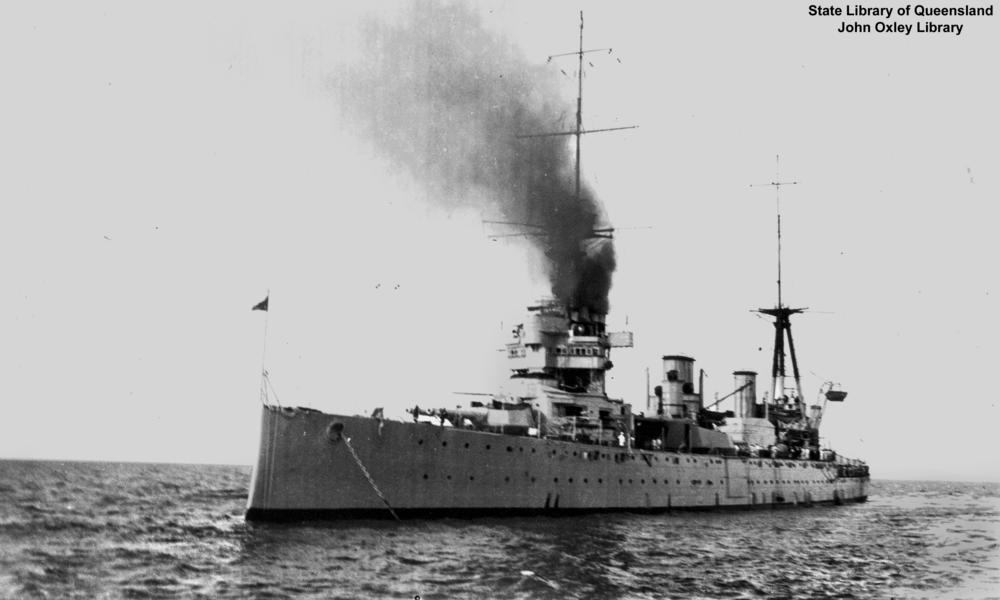 Australia (ship)